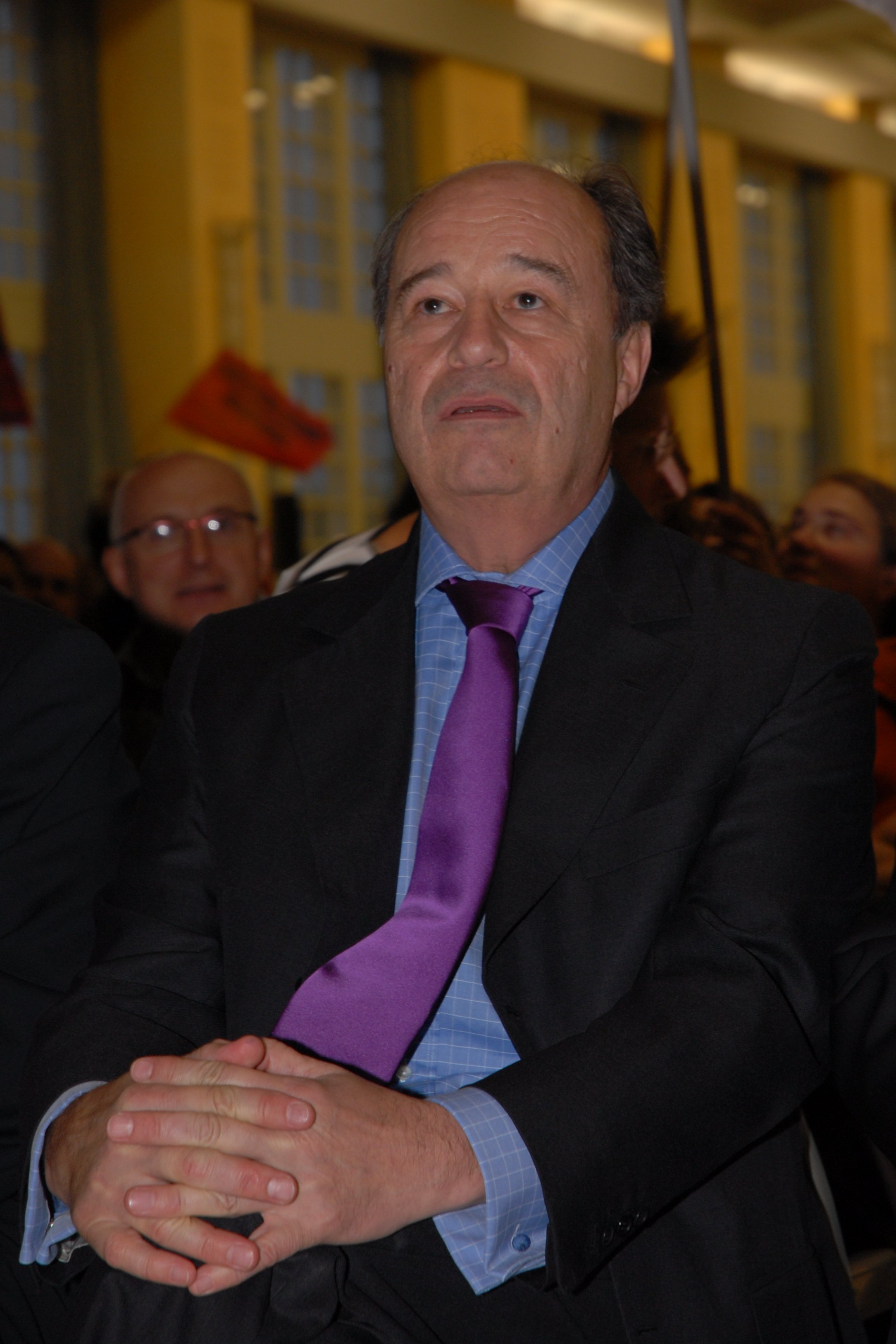 Jean-Michel Baylet (French politician) during Dominique Strauss-Kahn's meeting in Toulouse on April, 13th 2007 where he was promoting Ségolène Royal's candidacy for the 2007 presidential election.